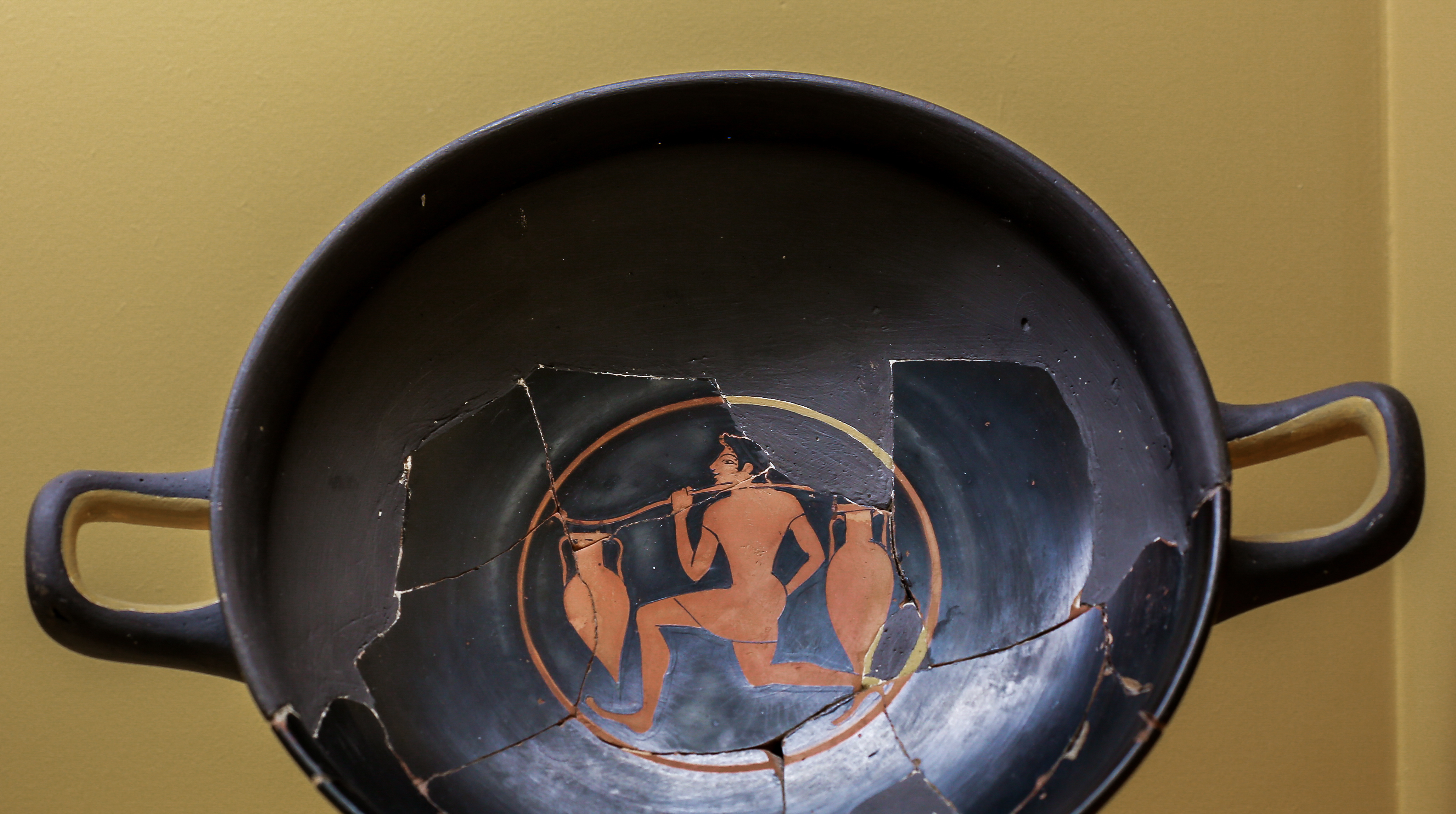 object type / vase shape: attic red figure cup (kylix) - description interior: naked boy, running to the left, carrying 2 pointed amphorai on a stick over his shoulder - exterior not decorated (black): - production place: Athens - painter: related to the group of Acropolis 96 - period / date: late archaic, ca. 500 BC - material: pottery (clay) - diameter tondo: 7,7 cm - findspot: Athens, Ancient Agora, well between Hephaisteion and Stoa of Zeus Eleutherios - museum / inventory number: Athens, Ancient Agora Museum P 1275 - bibliography: John D. Beazley, Attic Red-Figure Vase-Painters, Oxford 1963(2), 105 - Please note: The above museum permits photography of its exhibits for private, educational, scientific, non-commercial purposes. If you intend to use the photo for any commercial aime, please contact the museum and ask for permission.